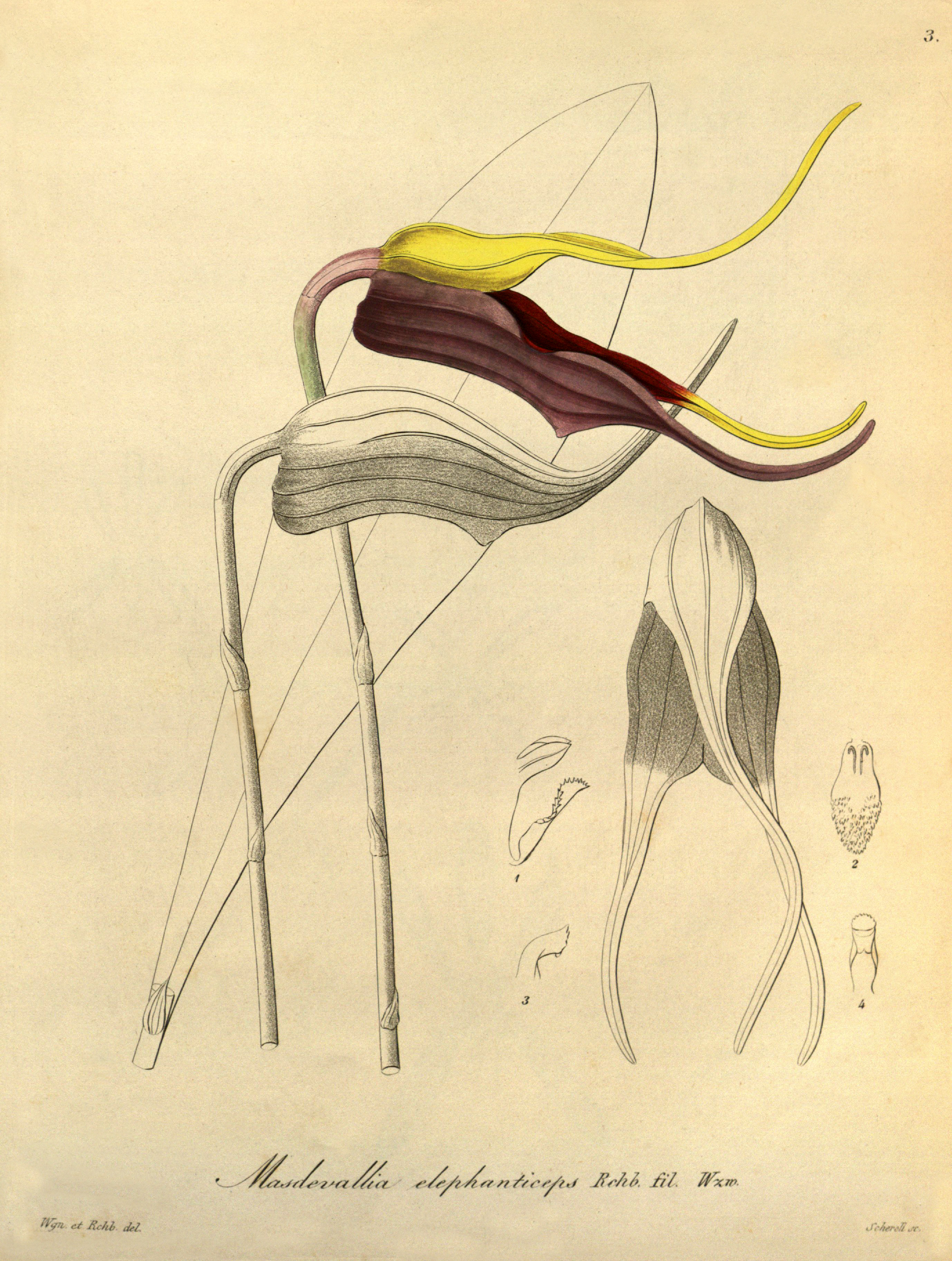 Illustration of Masdevallia elephanticeps